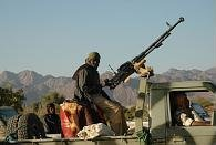 A Nigerien rebel fighter mans a gun in northern Niger, from the Niger Movement for Justice. Photo by Phuong Tran, Voice of America reporter in Dakar.